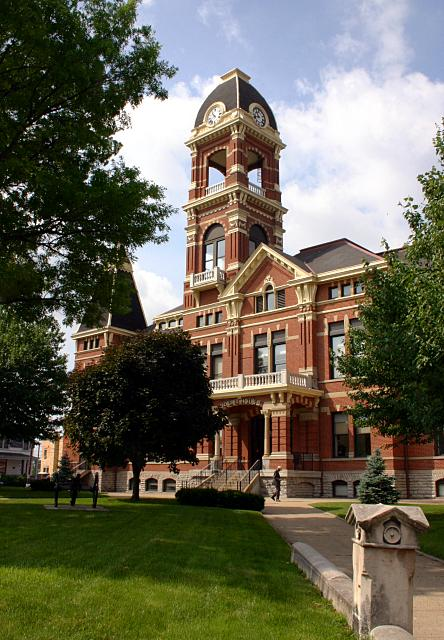 Campbell County Courthouse, Newport, Kentucky, 2004, by Rick Dikeman